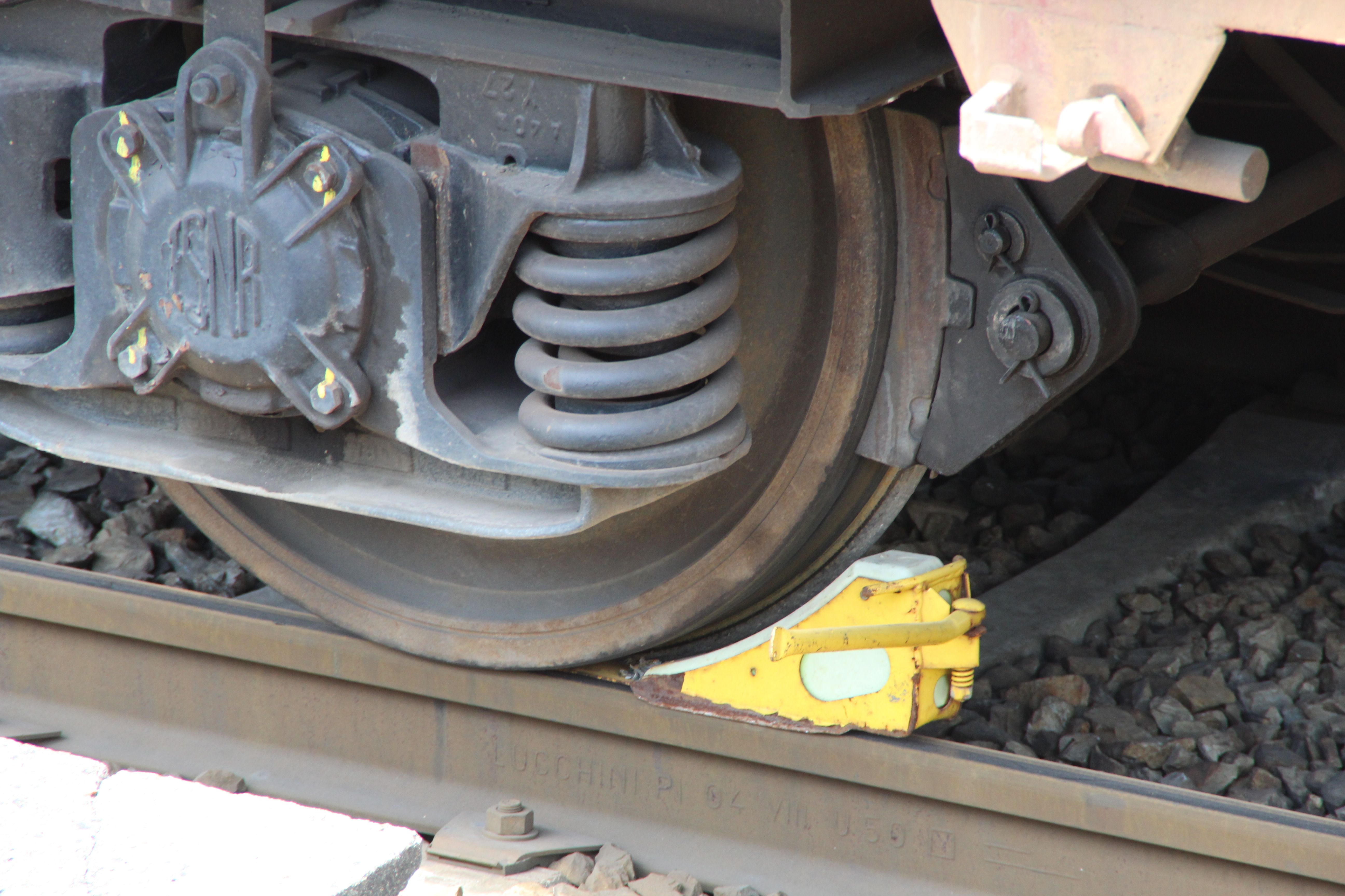 Gare de Bures-sur-Yvette in France.